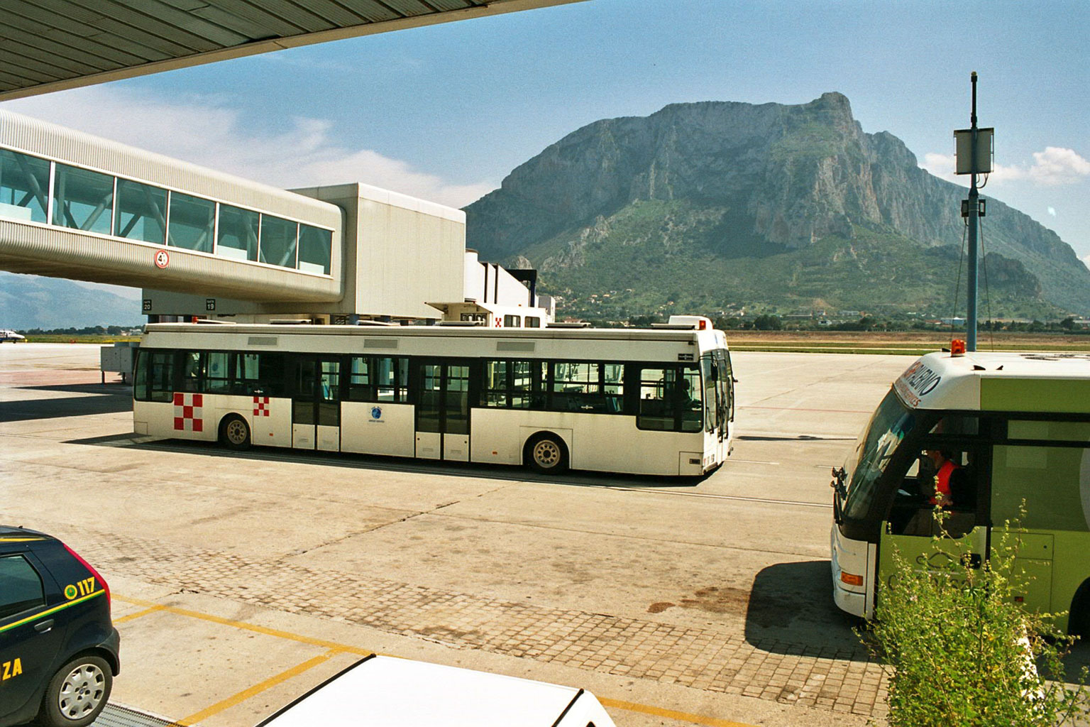 Palermo airport. One of the gates.